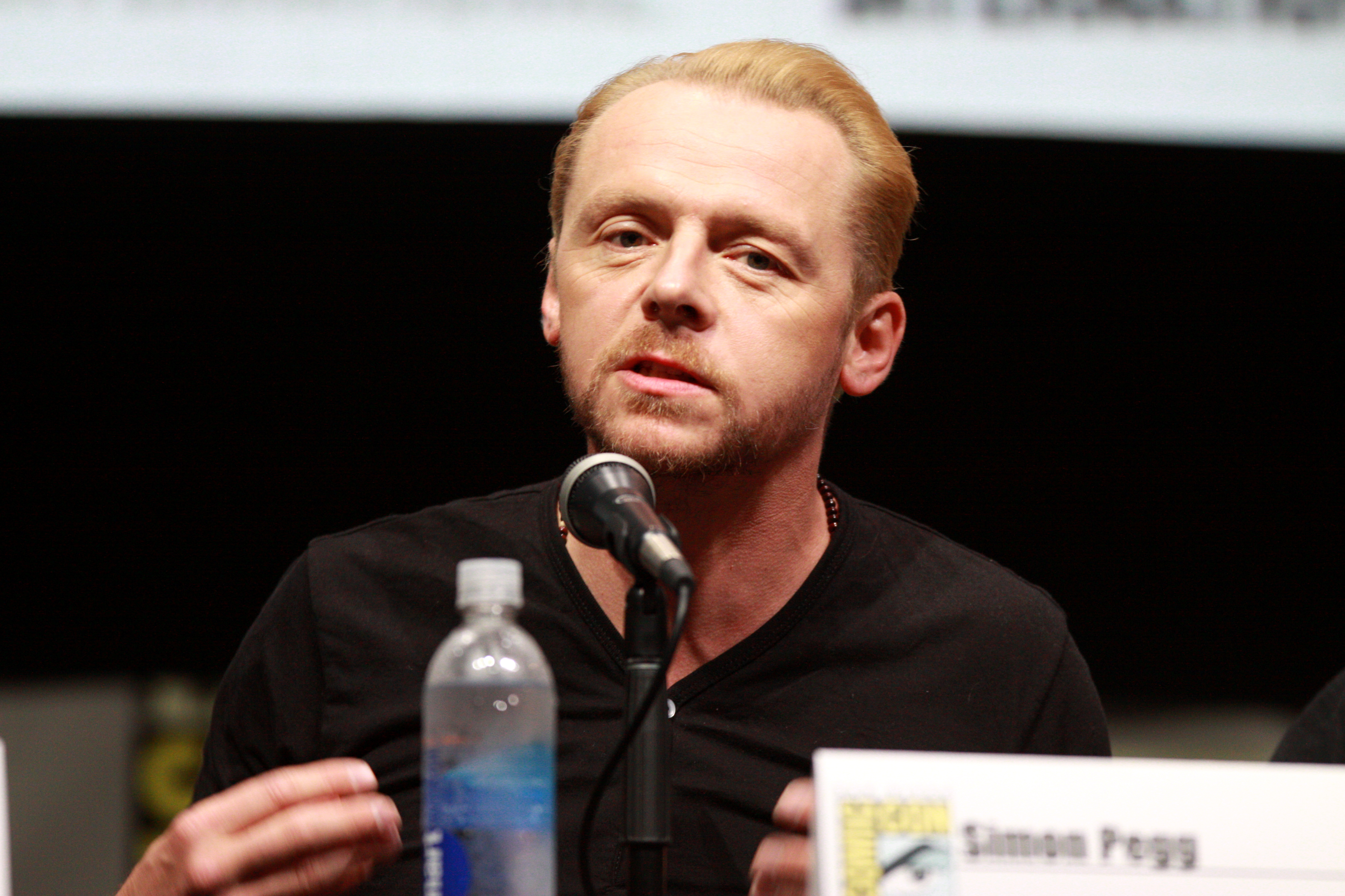 Simon Pegg speaking at the 2013 San Diego Comic Con International, for "The World's End", at the San Diego Convention Center in San Diego, California.